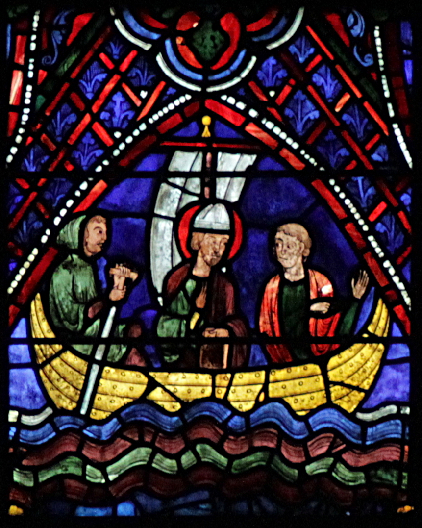 Fragment of File:Chartres 36 -Corrected.jpg - Life of St Apollinaris